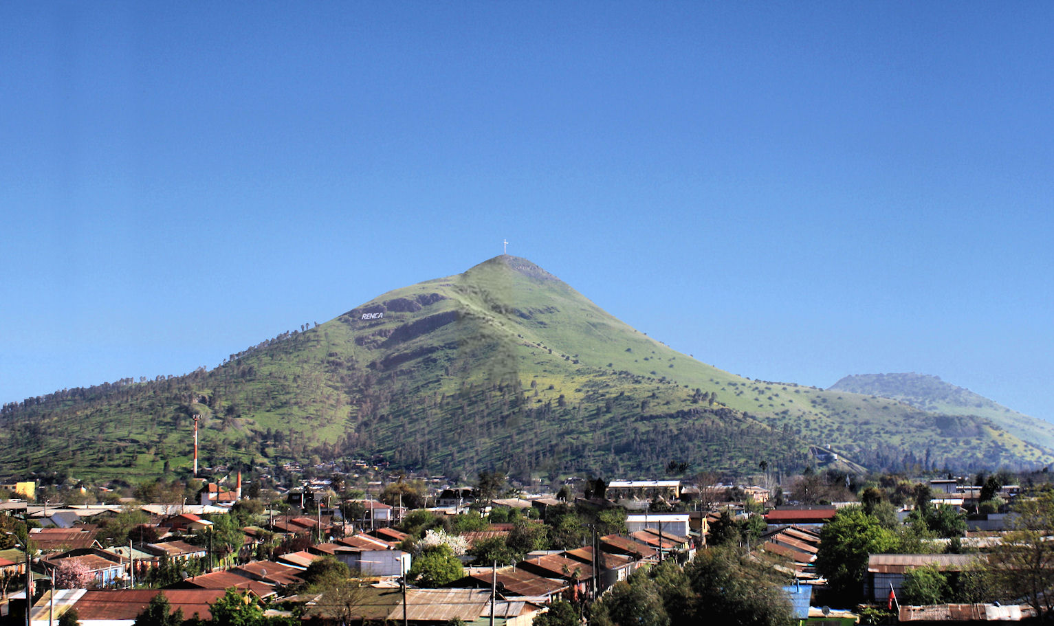 We passed this on our way from Santiago Airport to the hotel. The photo was taken through the coach window and the resulting sky was so full of reflections that I replaced it.